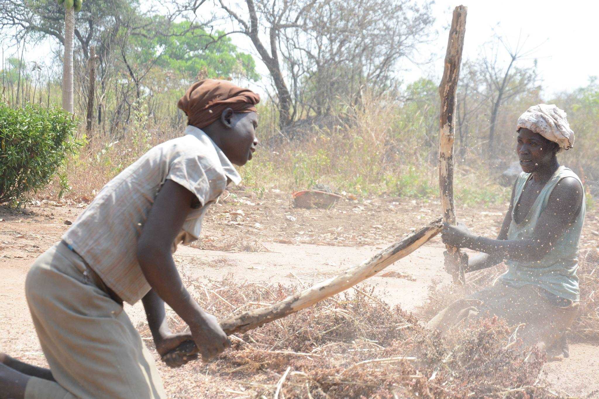 Women pounding Soghum in Pader in the afternoon while men go very early in the morning to drink locally brewed beer(Malwa).Women literally work for men and their children This is an image of "African people at work" from Uganda